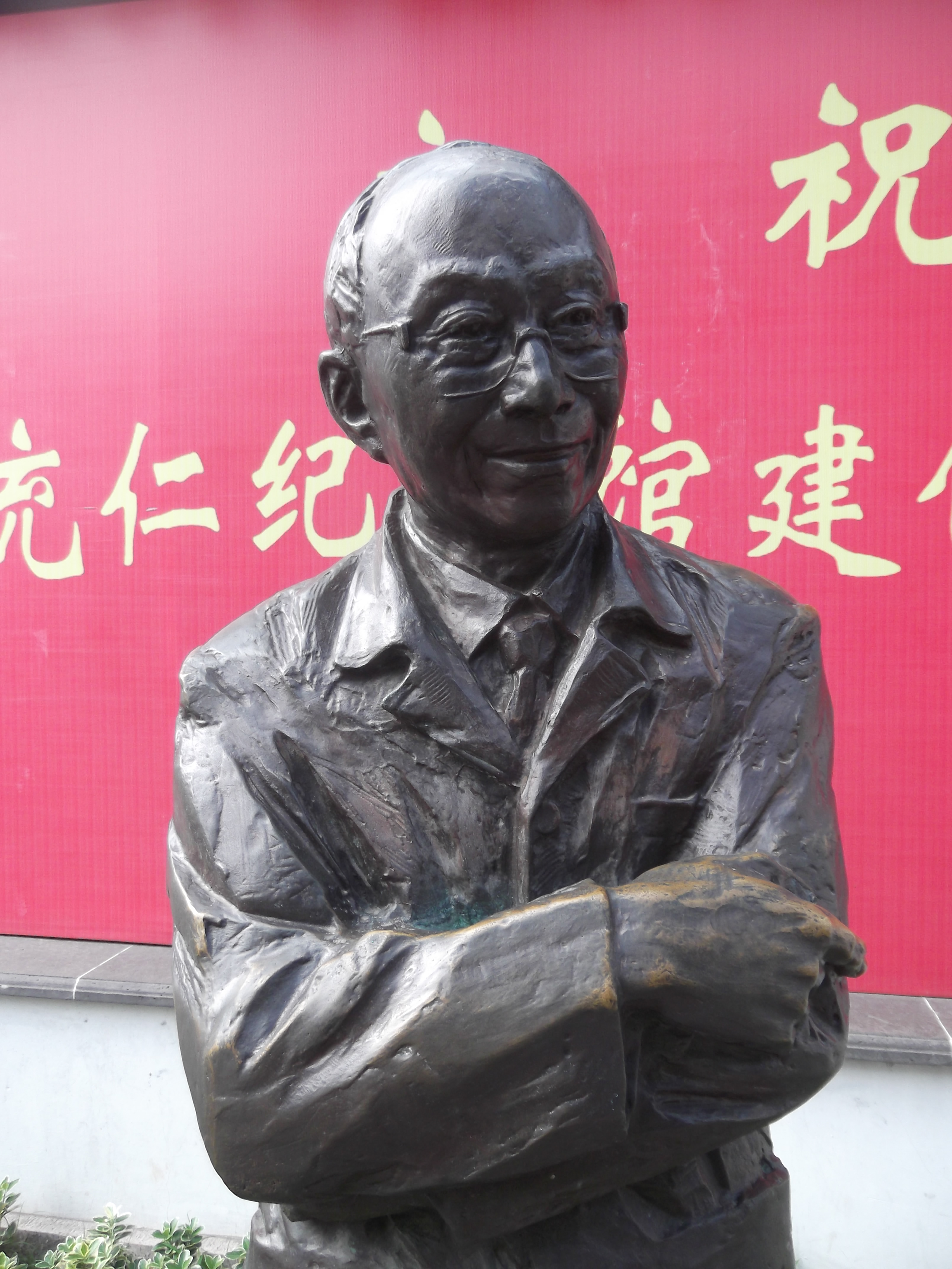 Statue in Qibao, Shanghai, China.